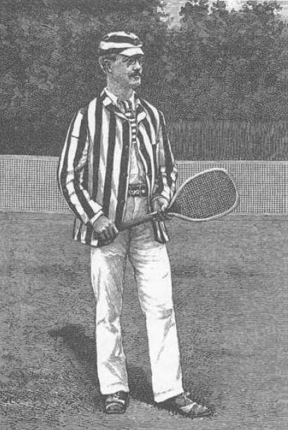 Richard Sears, American tennis player, seven times U.S. Champion